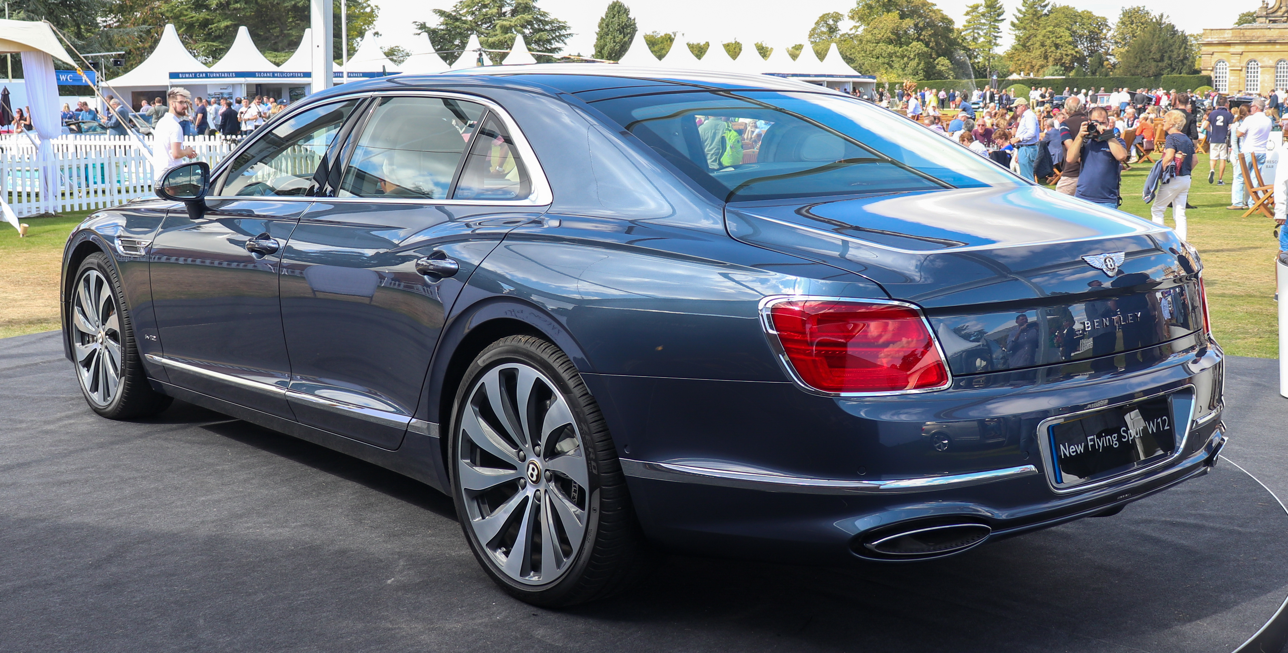 2019 Bentley Flying Spur W12 Rear Taken at the Salon Privé Concours d'Elegance Classic Car Motor Show 2019, Blenheim Palace